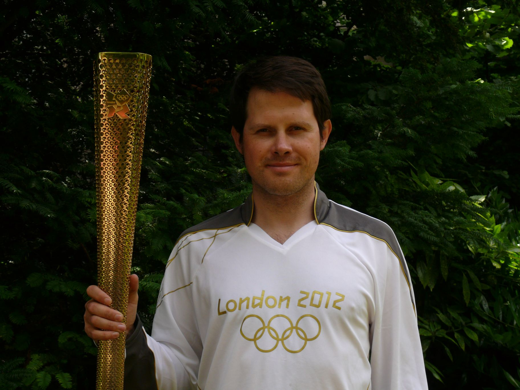 Louis-Philippe Loncke holding his olympic torch in Lille (Nord, France).